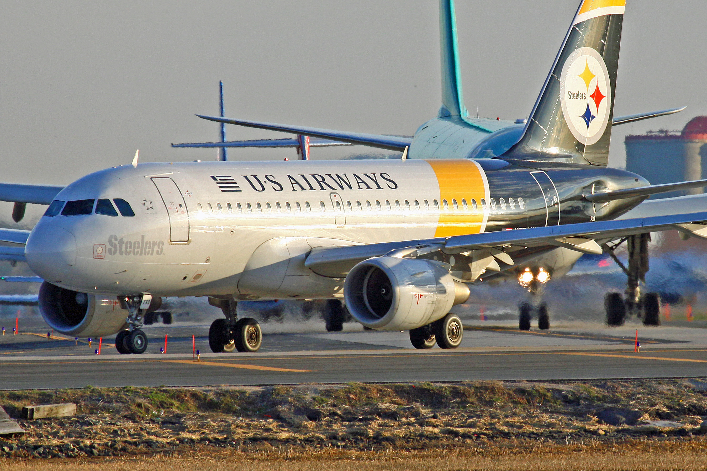 US Airways N733UW - NFL's Pittsburgh Steelers